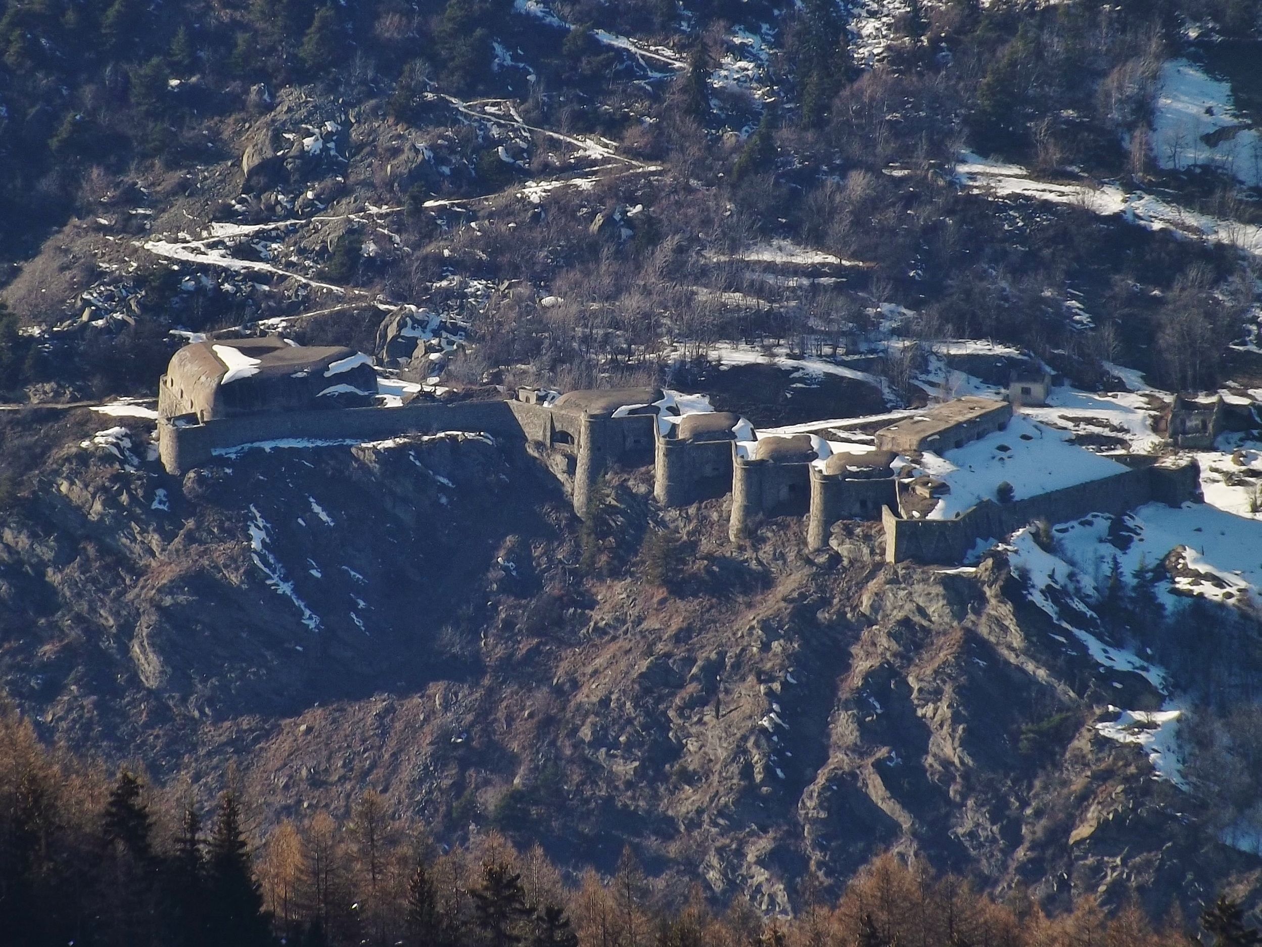 Panoramic sight, from the heights of La Norma ski resort, of the fort du Replaton fort, above Modane, in Savoie, France.